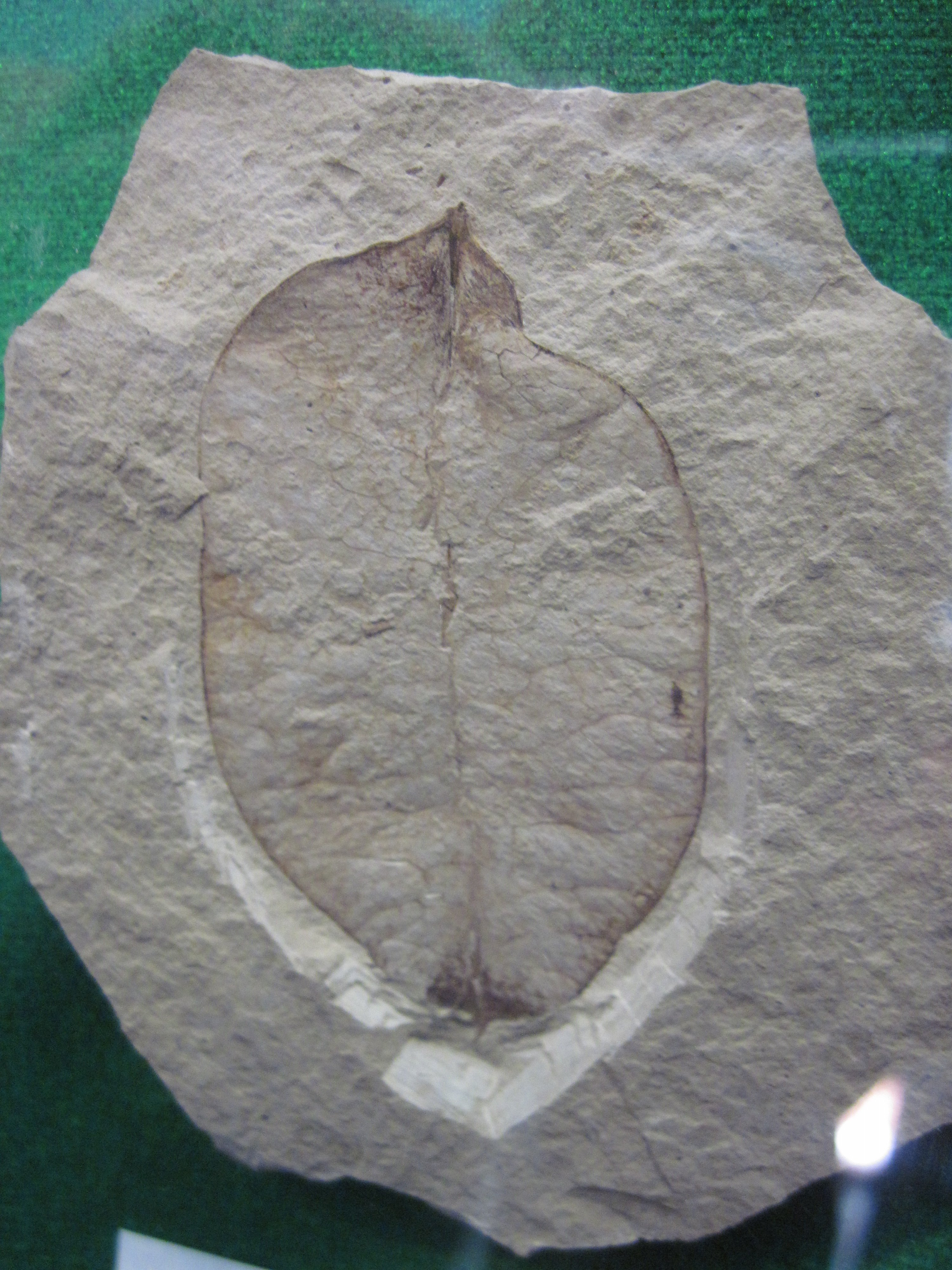 A complete Koelreuteria dilcheri fruit. Ypresian, Latest Early Eocene; Tom Thumb Tuff member, Klondike Mountain Formation, Republic, Washington, U.S.A. Stonerose Interpretive Center, Republic, Ferry County, Washington, U.S.A. Collection number SR 02-22-14 A